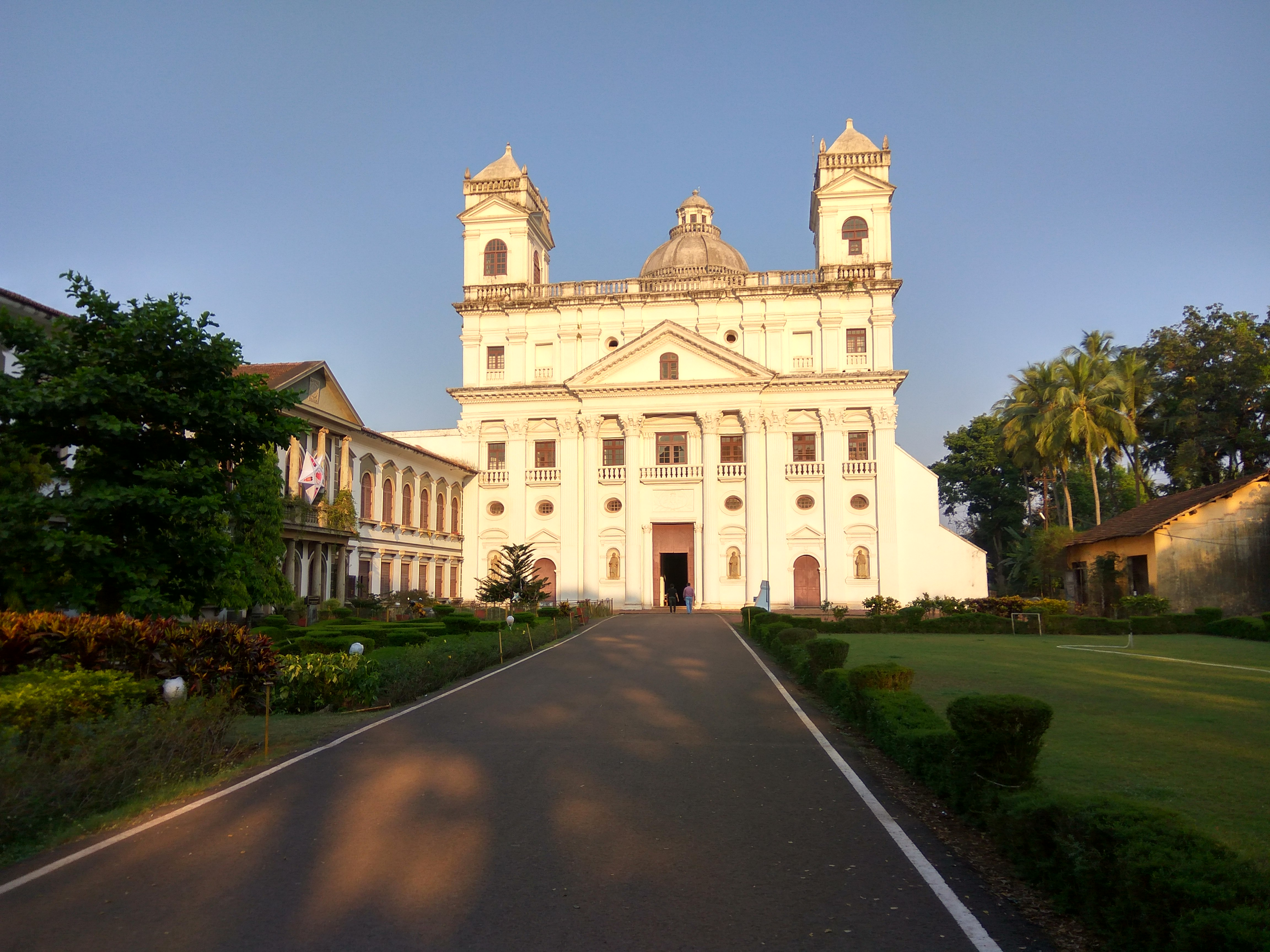 The Church of St Cajetan is part of the UNESCO World Heritage Churches and Convents in Goa, India.